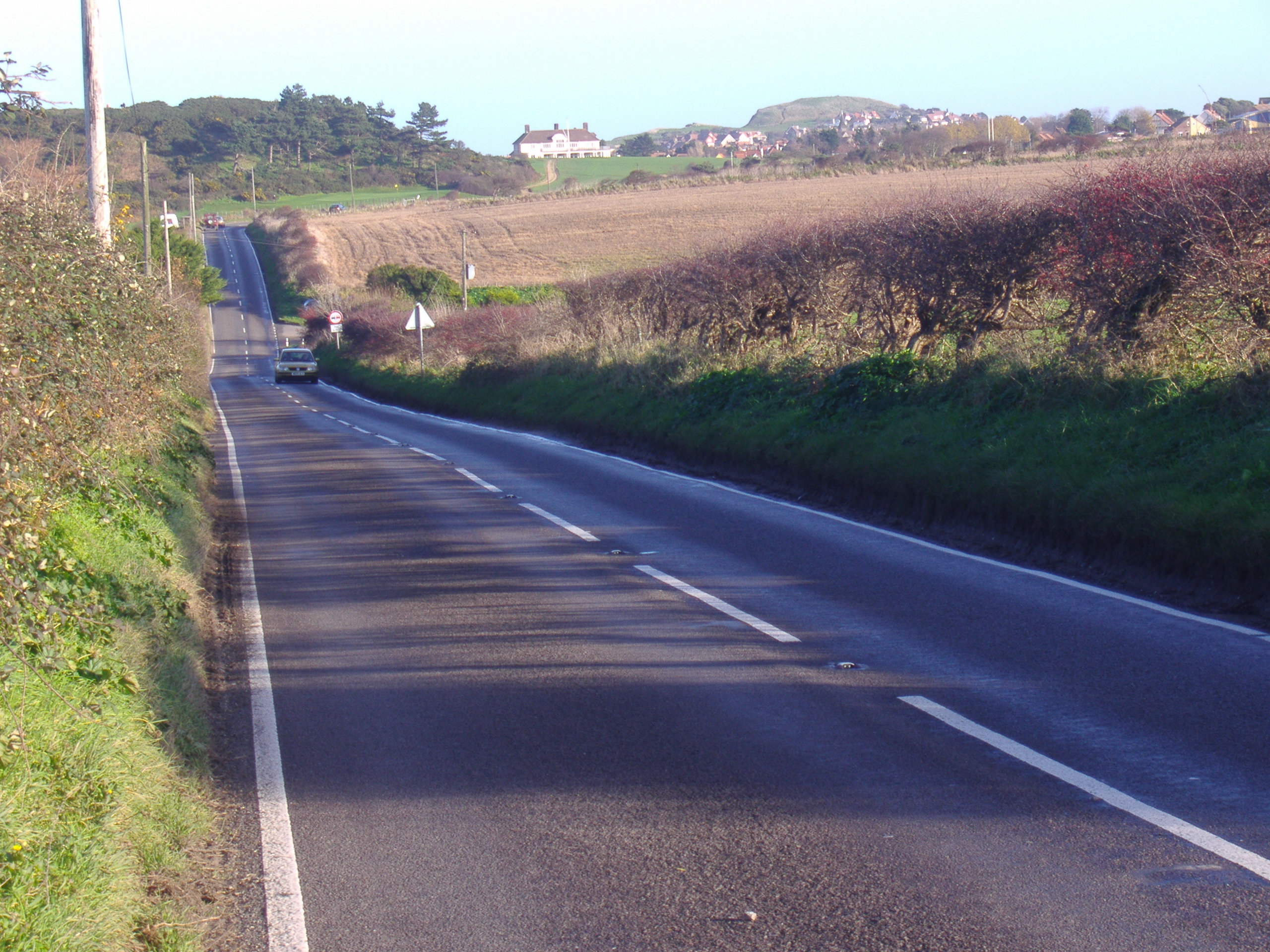 A Digital Photograph of the A149 at Sheringham by M Hobbs 29/11/2006